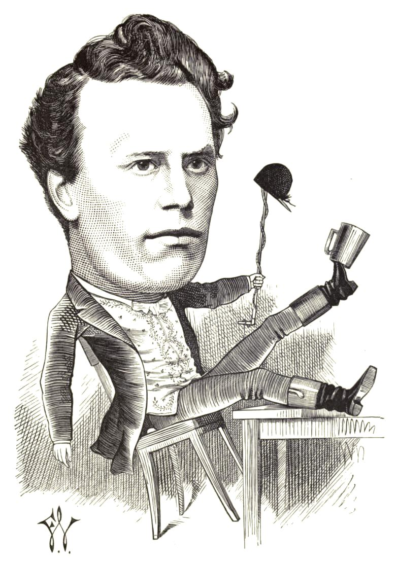 Lionel Brough. Tony Lumpkin from Cartoon portraits and biographical sketches of men of the day